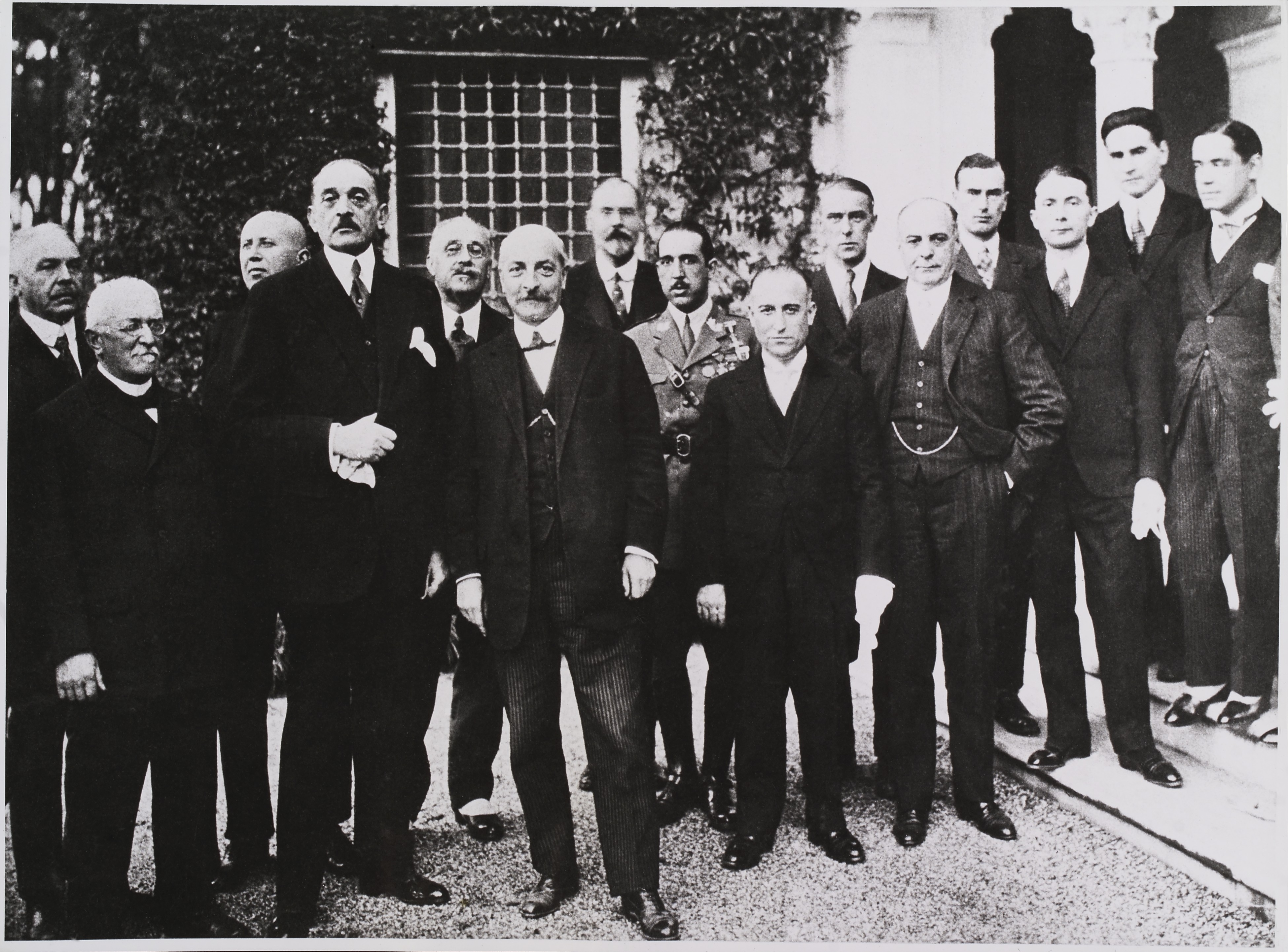 Photograph of European group which visited Algiers to report on the Russian transplant pioneer Serge Voronoff's work; includes Voronoff, F.M.A Marshall, F.A.E Crew, W.C Miller and Arthur Walton. Photographer unknown Archives & Manuscripts